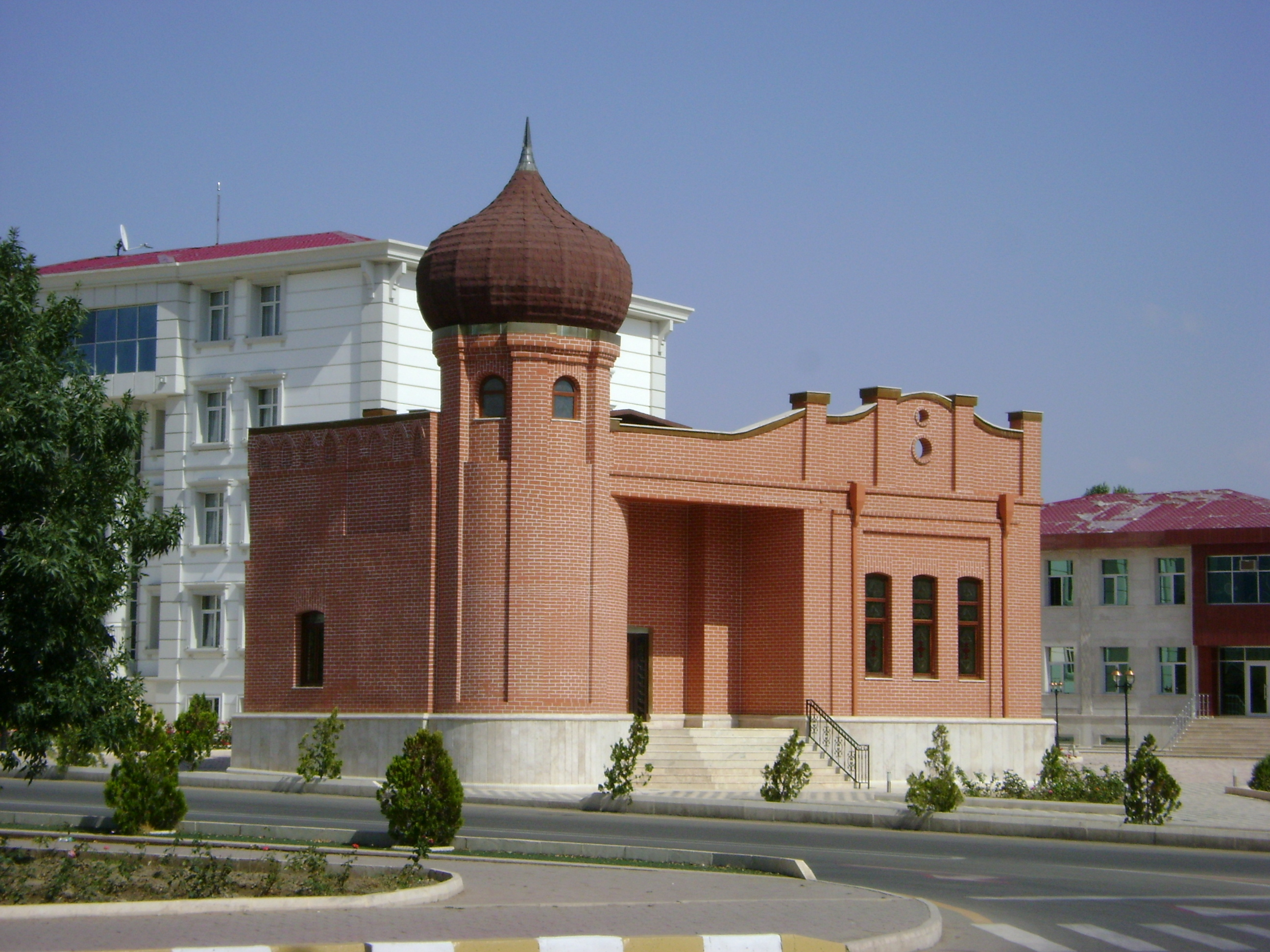 Nakhchivan City Feminine centre